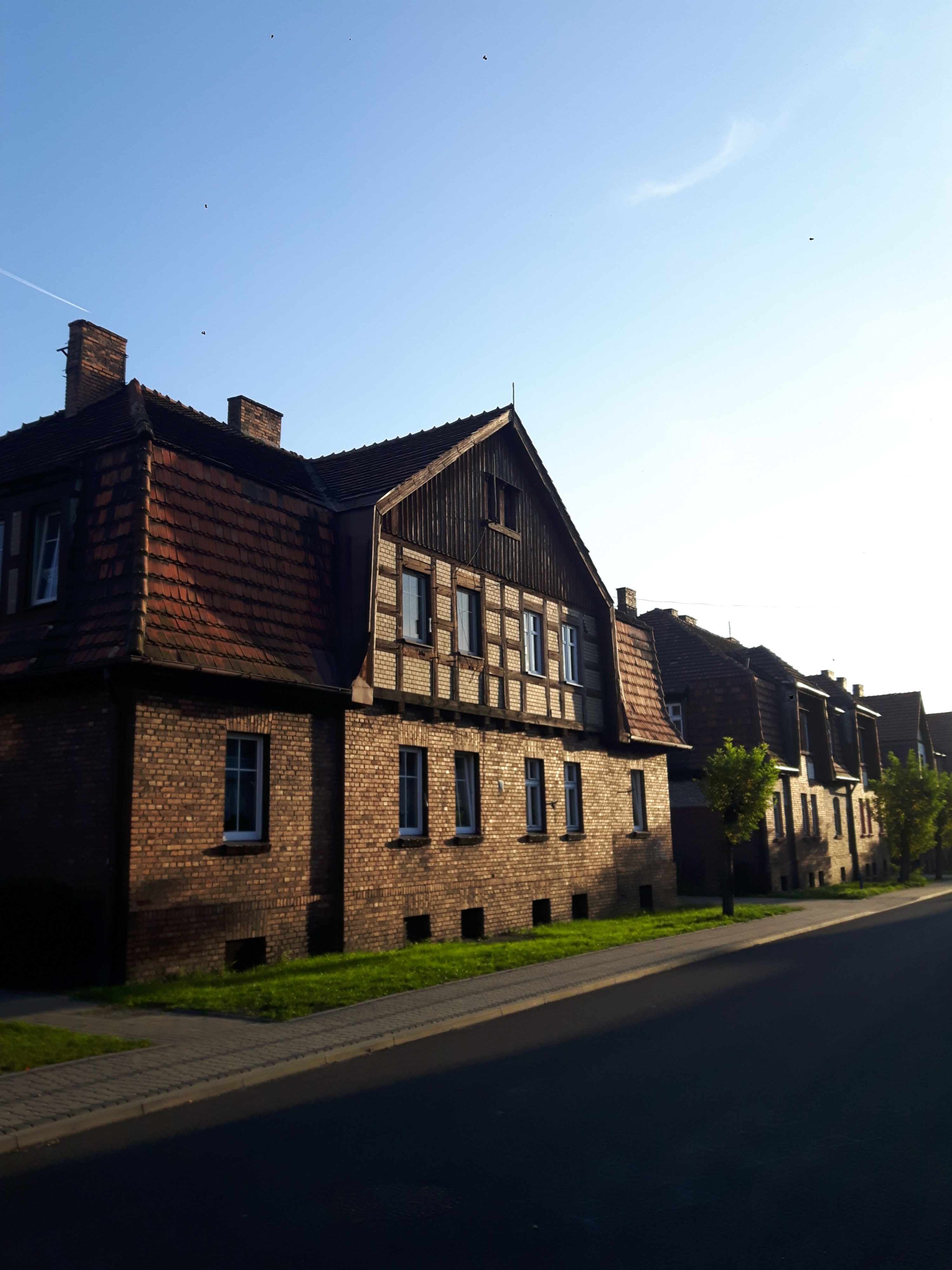 Familoki workers' houses in Czerwionka-Leszczyny, Poland